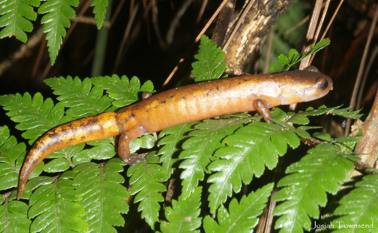 Bolitoglossa diaphora